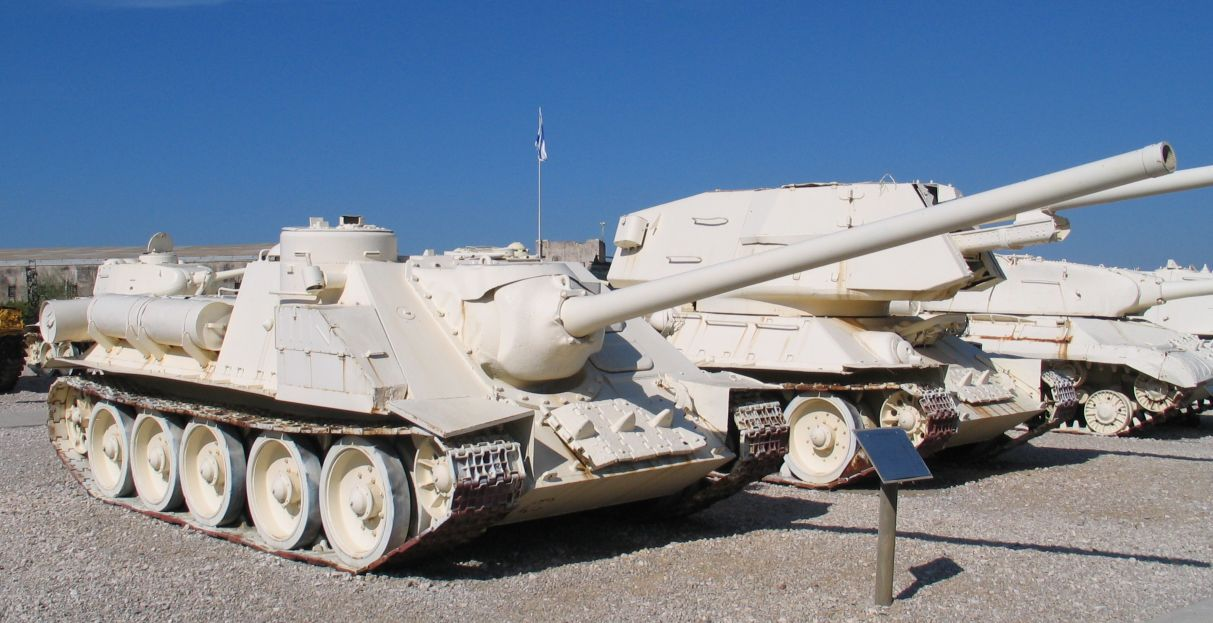 Description: Soviet SU-100 tank destroyer in Yad la-Shiryon Museum, Israel. Source: Photo by me, User:Bukvoed.